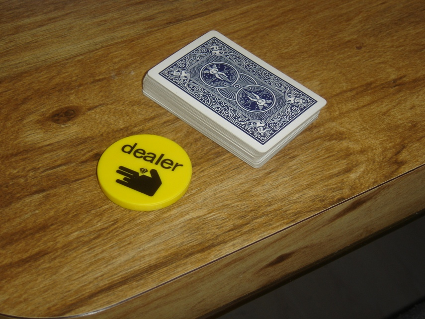 A dealer button or "buck" next to a deck of bridge-size playing cards on a wood table.